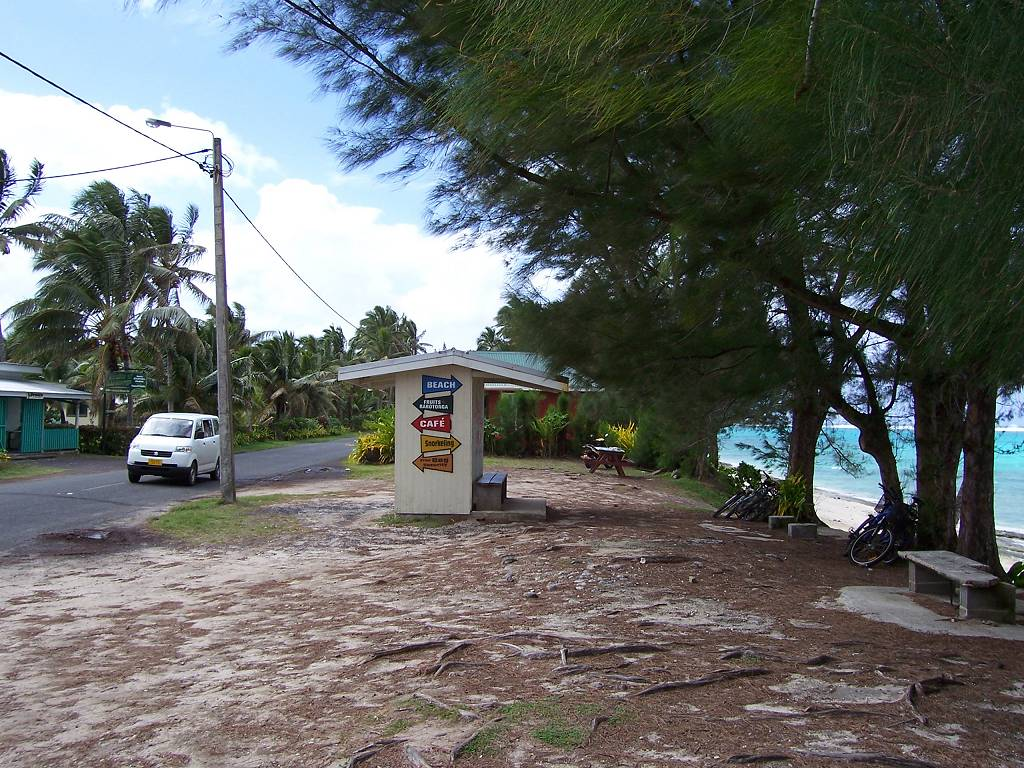 The Ara Tapu (main road) near Tikioki Beach, Rarotonga (Cook Islands).